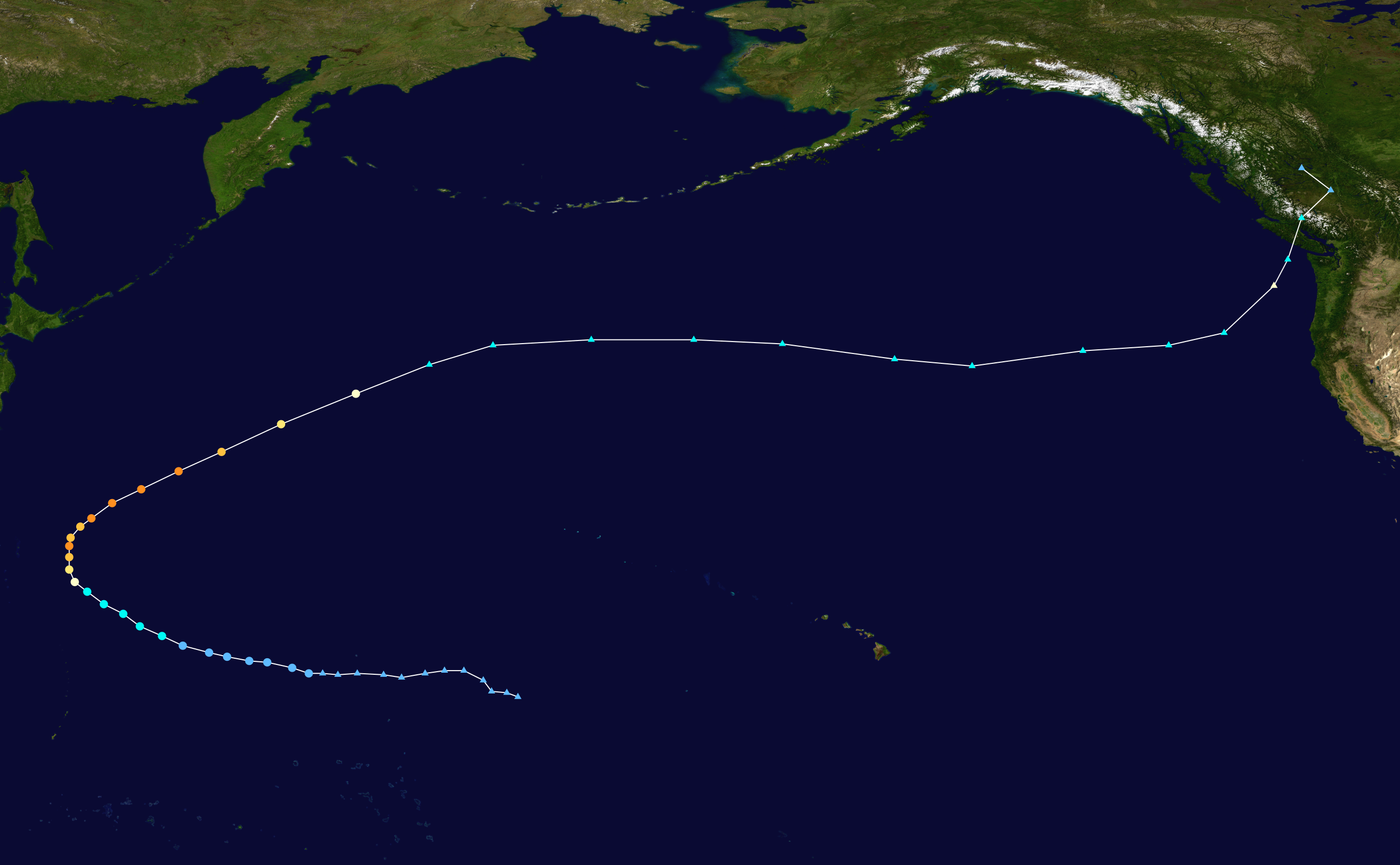 Track map of Typhoon Songda of the 2016 Pacific typhoon season. The points show the location of the storm at 6-hour intervals. The colour represents the storm's maximum sustained wind speeds as classified in the Saffir–Simpson scale (see below), and the shape of the data points represent the nature of the storm, according to the legend below. Saffir–Simpson scale Tropical depression≤38 mph≤62 km/h Category 3111–129 mph178–208 km/h Tropical storm39–73 mph63–118 km/h Category 4130–156 mph209–251 km/h Category 174–95 mph119–153 km/h Category 5≥157 mph≥252 km/h Category 296–110 mph154–177 km/h Unknown Storm type Tropical cyclone Subtropical cyclone Extratropical cyclone / Remnant low / Tropical disturbance / Monsoon depression